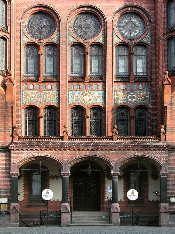 Neumünster (Schleswig-Holstein, Germany),town hall , photo 2009